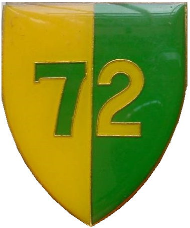 SADF 72 Brigade emblem